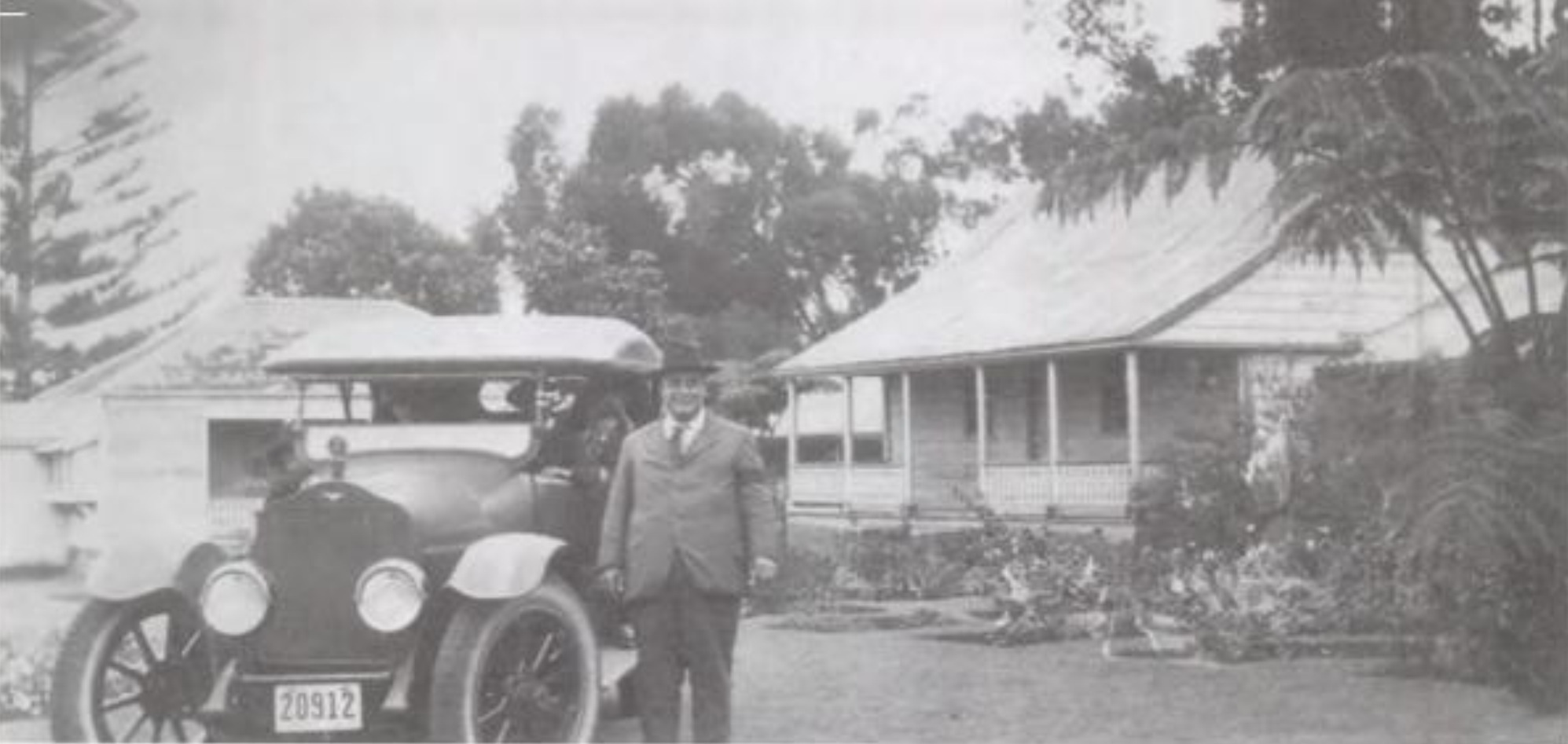 Frank Wood former owner of Kahua Ranch, arrives at Mana during the good times, 1923. Bishop Museum photo CP 115.306. James Frank Woods (June 27, 1872 – June 4, 1930) was a major landowner during the Kingdom of Hawaii who was related to royalty and many civil leaders.